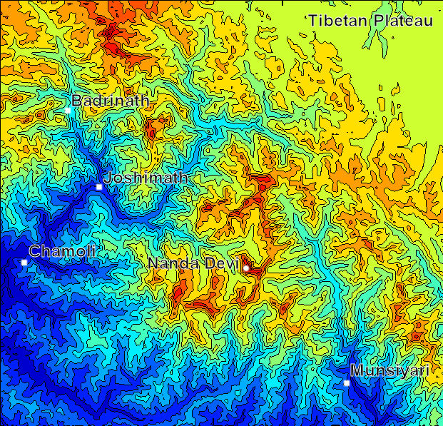 Shaded contour map of the Nanda Devi region in Uttarakhand, India. Made with MATLAB using free SRTM data; labels done in Paint Shop Pro. Region shown is from Latitude 31N to 30N, Longitude 79.3E to 80.5E.